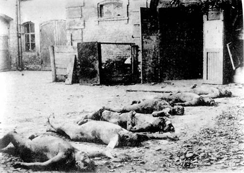 Kharkiv govcheka yard (Sadova street, 5) with the corpses of executed.